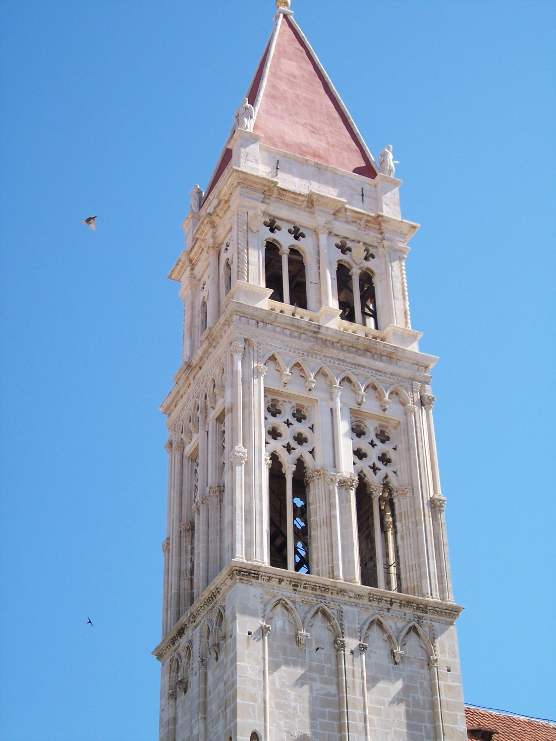 Cathedral of St. Lawrence in Trogir (Croatia)